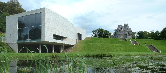 Country Life Museum. A dramatic juxtaposition of the new and the traditional at the Country Life Museum, Turlough near Castlebar